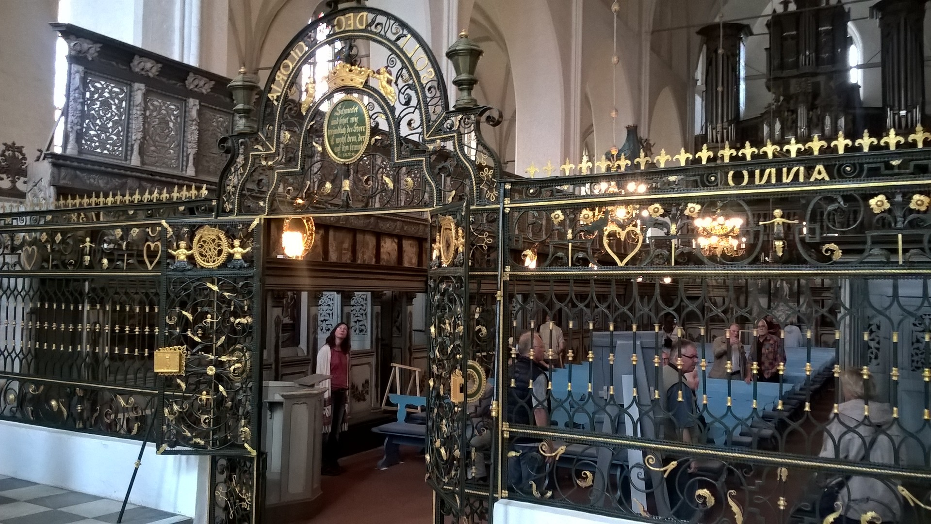 Klosterkirche Preetz, Choir cover gate